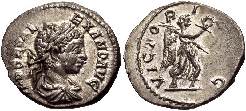 Severus Alexander. AD 222-235. AR Denarius (20mm, 3.20 g, 12h). Antioch mint. 1st emission, AD 222. Laureate, draped, and cuirassed bust right VICTORIA AUG, Victory advancing right, holding palm and wreath. RIC IV 302; RSC 561. EF, toned, area of flat strike.